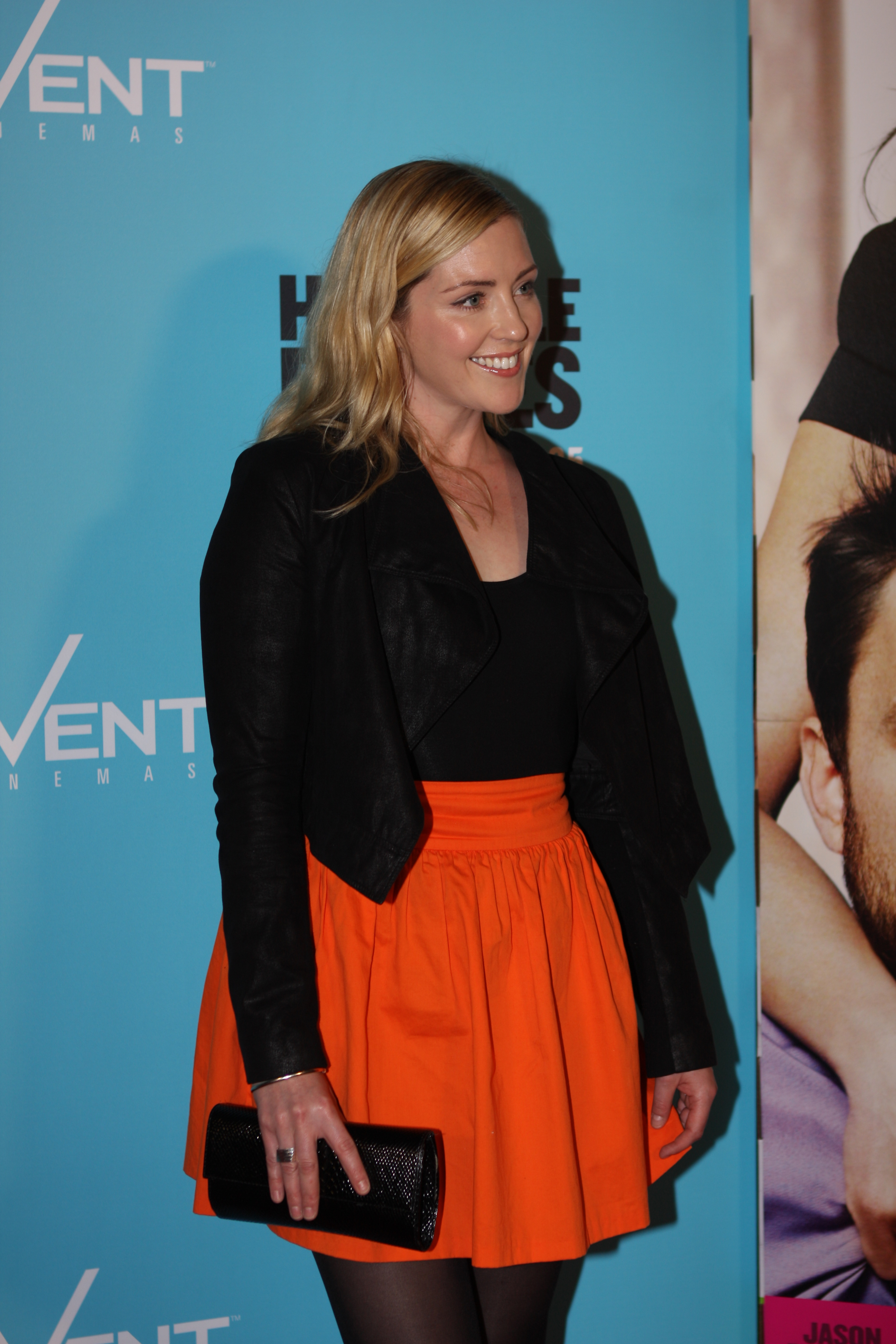 Jacinta Stapleton at the Horrible Bosses premiere in Sydney